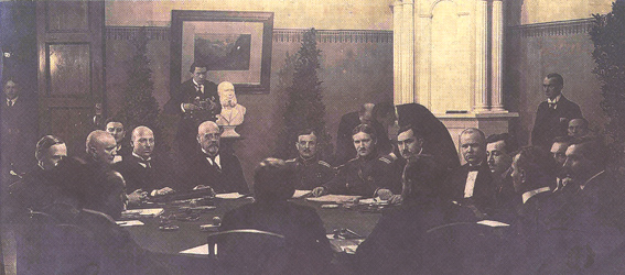 Estonian and Russian delegations to the Peace takls in Tartu in 1920. In the middle Jan Poska, to his left Julius Seljamaa and Mait Püüman, to his right General Jaan Soots, Colonel Viktor Mutt, Ants Piip, Rudolf Pääbo.